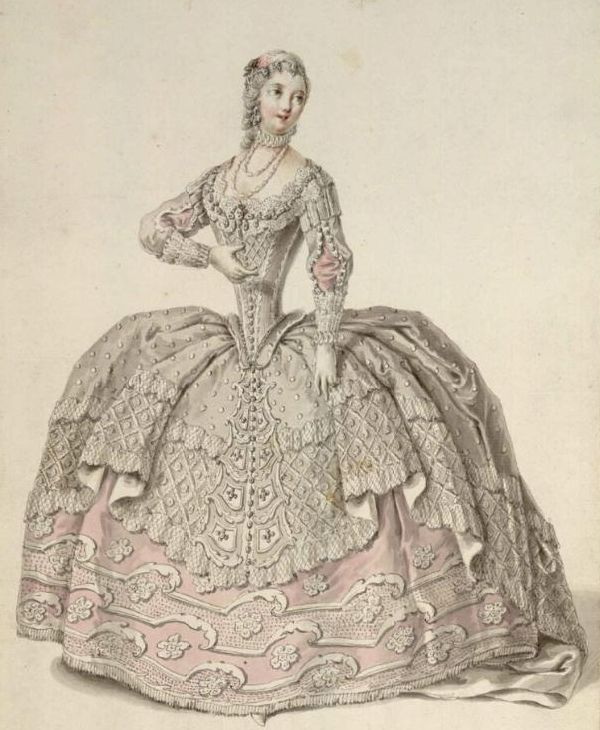 Arminio by [Johann Adolf Hasse] (staged Dresden 1753) Costume designs by Francesco Ponte (b. 1725) - Tusnelda (sung by Teresa Albuzzi-Todeschini) fig. 4 of 7 (+title page)